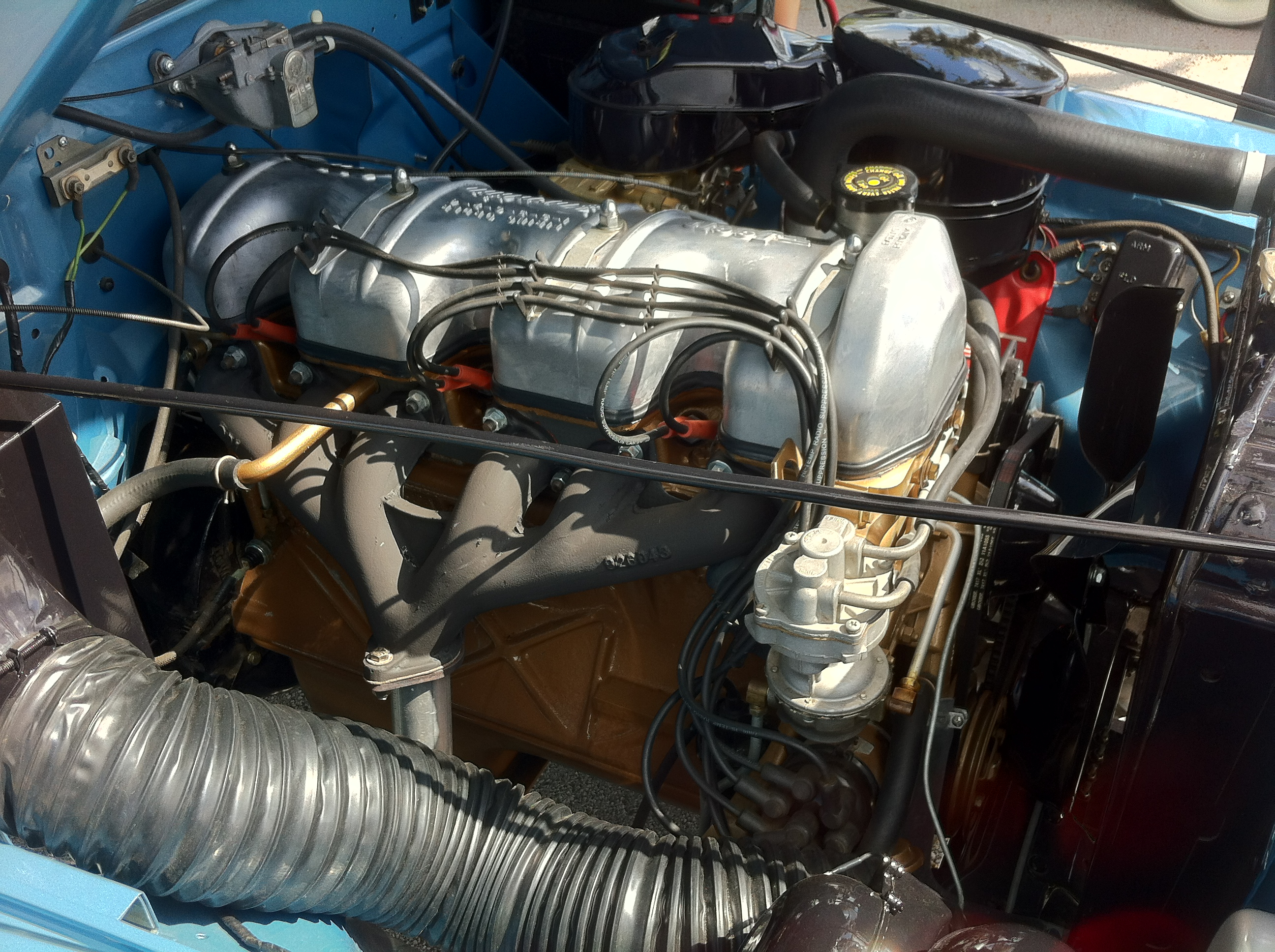 1963 Jeep Willys pickup truck by built by Kaiser - right side view of the 230 cu in (3.78 L) OHV "Tornado" straight-six engine. Picture taken at the 2013 Antique Automobile Club of America (AACA) meet in Lakeland, Florida, USA.